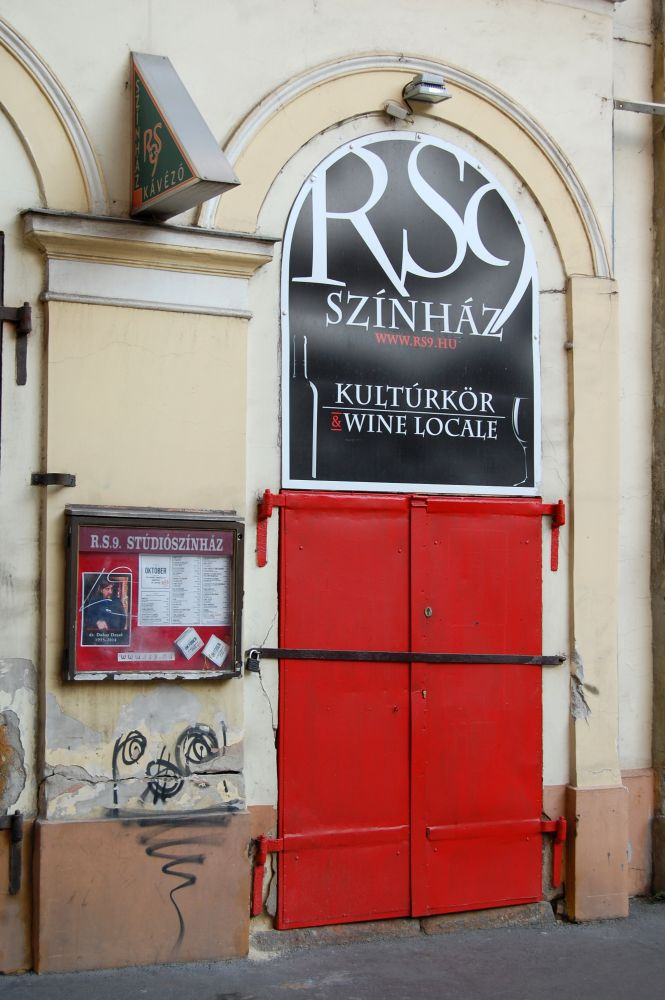 Entrance of the RS9 Theater in 2014.